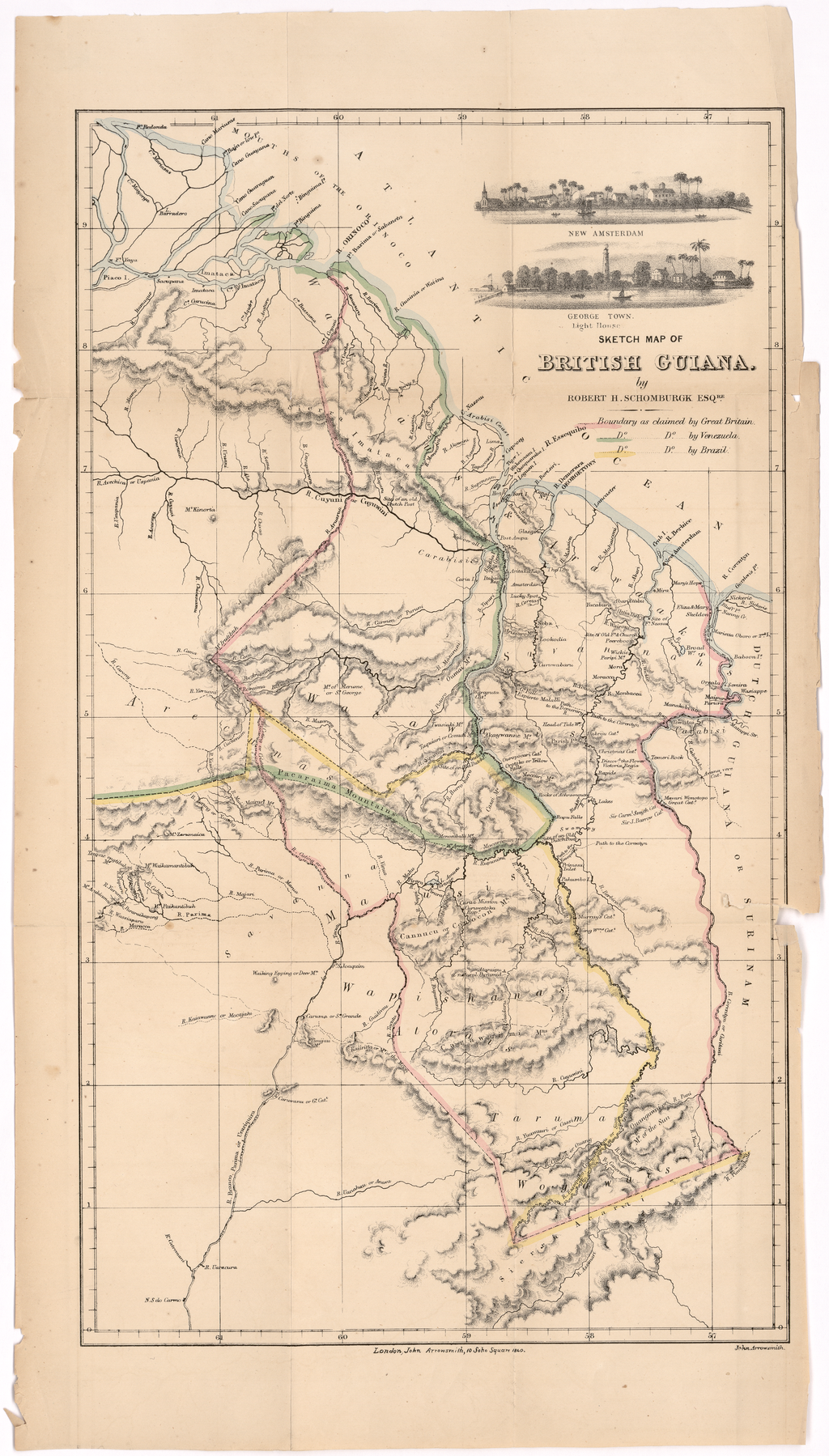 Robert Hermann Schomburgk (1804–65) was a British naturalist and surveyor known for his pioneering surveys of British Guiana (present-day Guyana). Born and educated in Germany, he traveled to the West Indies in 1830 where he completed a survey of one of the Virgin Islands that was published in the Journal of the Royal Geographical Society. In 1835–39, under the direction of the Royal Geographical Society, he explored the Essequibo and Berbice Rivers in northern South America and completed a survey of British Guiana. Upon returning to Europe, he convinced the British government of the need to demarcate the boundaries of British Guiana. In April 1840, he was appointed commissioner for surveying and marking out the boundaries, which he completed in 1841–43. His proposals, known as the “Schomburgk line,” figured prominently in the disputes of the late-19th century between Great Britain and Brazil and Venezuela over the borders of British Guiana. This “sketch map” by Schomburgk, published in London in 1840, shows the competing claims of Britain, Brazil, and Venezuela. At the top of the map are sketches of the port and lighthouse of Georgetown, Guyana and of New Amsterdam, Guyana (capital of the former Dutch colony of Berbice, which passed to British control in 1815). Great Britain--Colonies